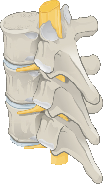 Vertebra Posterolateral